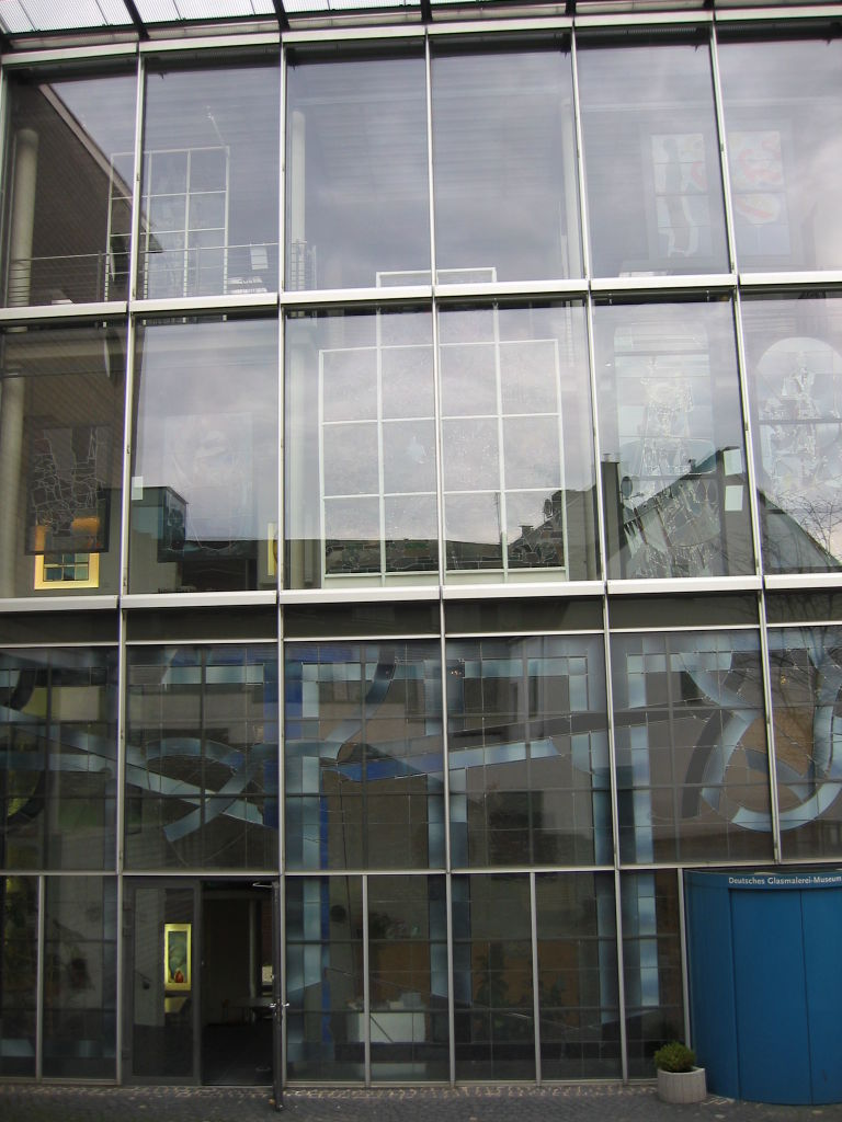 The "Deutsches Glasmalereimuseum" in Linnich